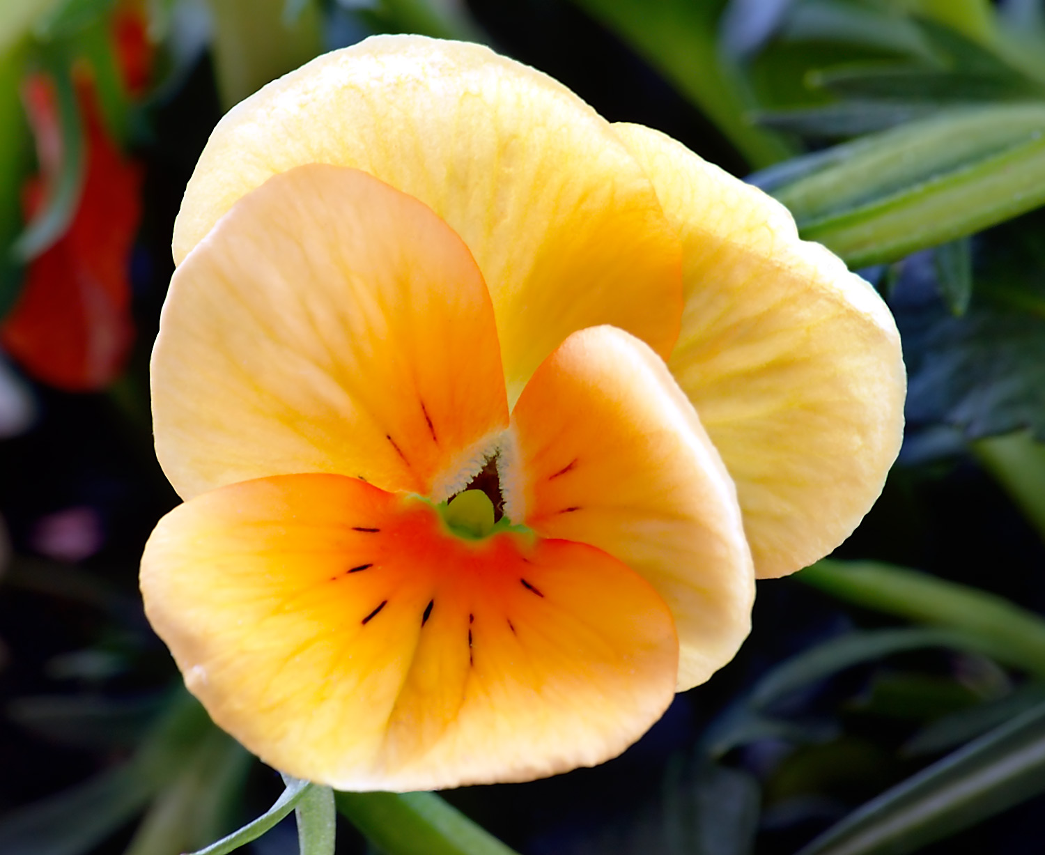 This image shows a pansy.